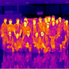 Termografía de la Semana de la Ciencia 2013. ETSE de Minas de la Universidad de Vigo